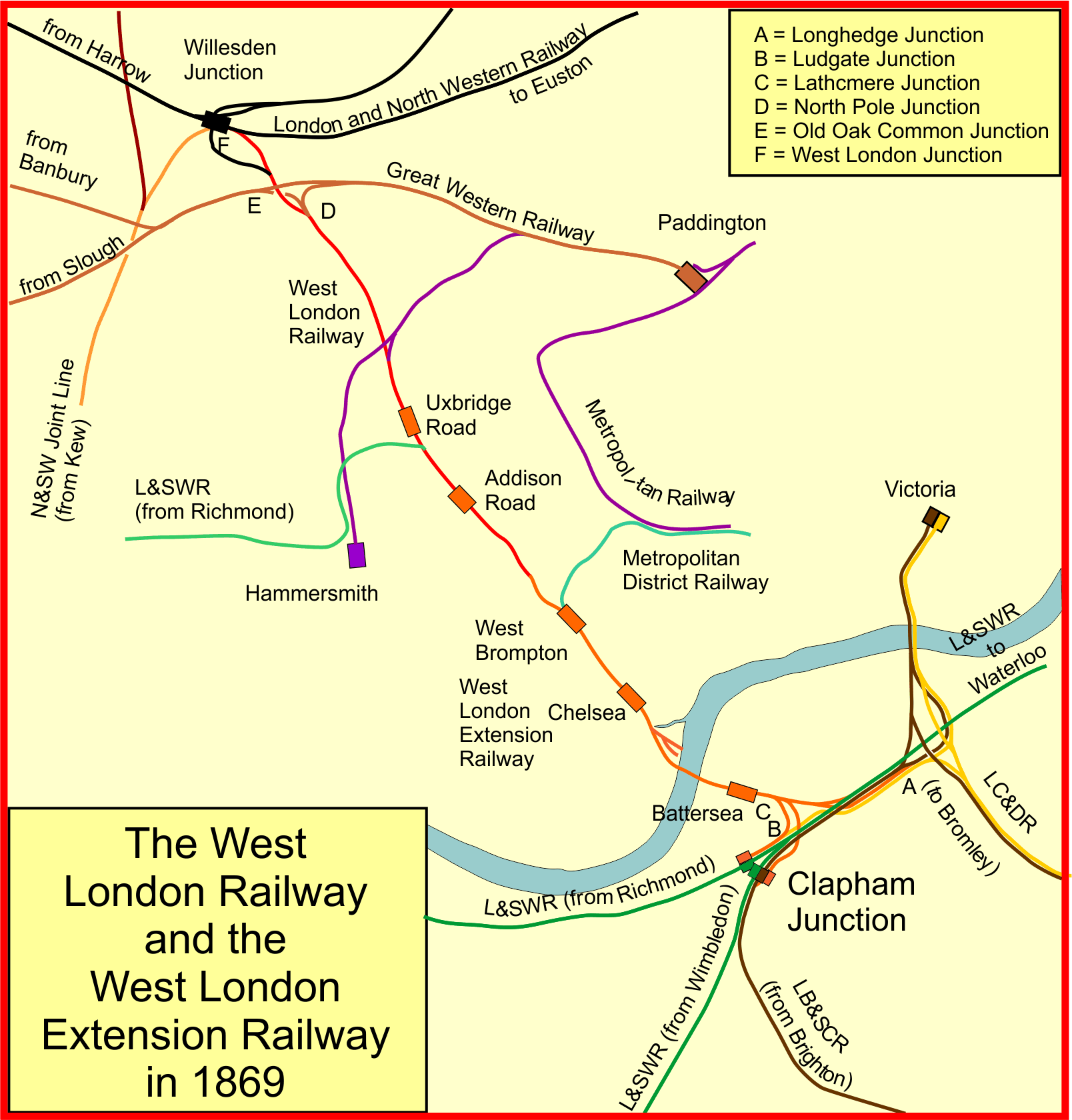 Map of West London Railway and West London Extension Railway system in 1869